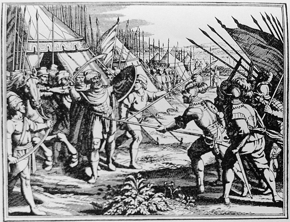 The murdering of Michael the Brave (8.VIII.1601)